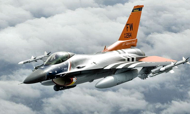 A specially painted USAF F-16C block 25 #84-1264 from the 163rd FS pulls away from the boom following an aerial refueling with a Grissom ARB KC-135R Stratotanker on November 13th, 2008. With the retirement of the Block 25 F-16s, the aircraft was preserved as a gate guard at Baer Field, Fort Wayne, Idiana. In 2009 the aircraft was placed on permanent display at Fort Wayne, IN 122 Wing HQ.